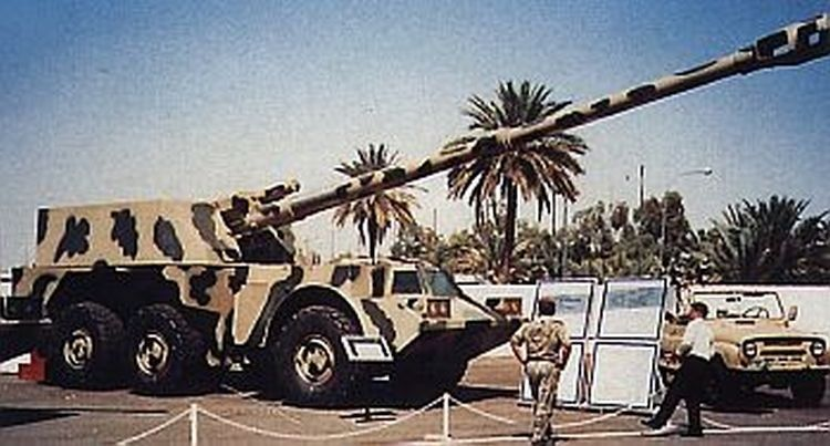 AL Fao 210mm SP